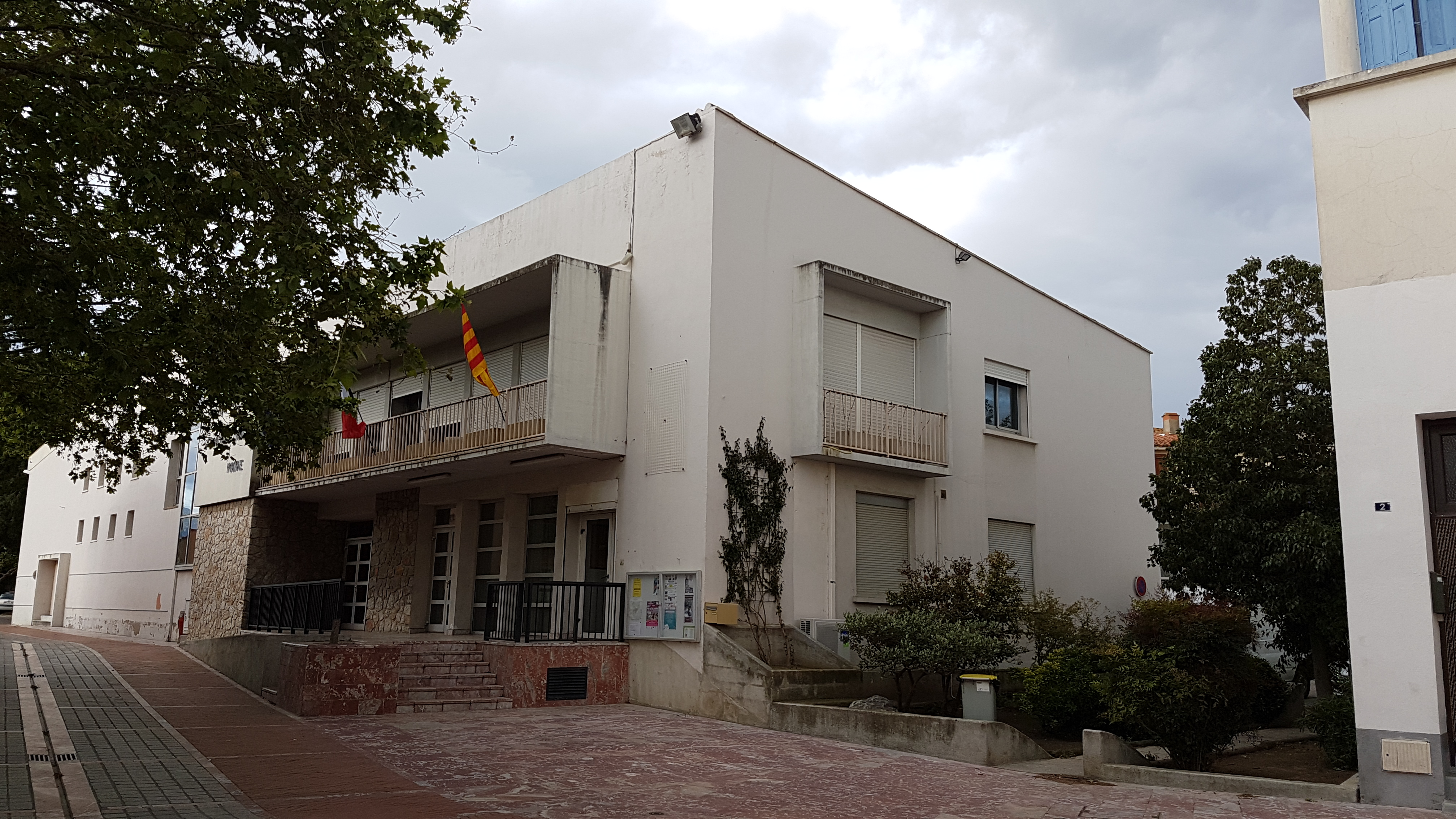 The town hall in Palau-del-Vidre